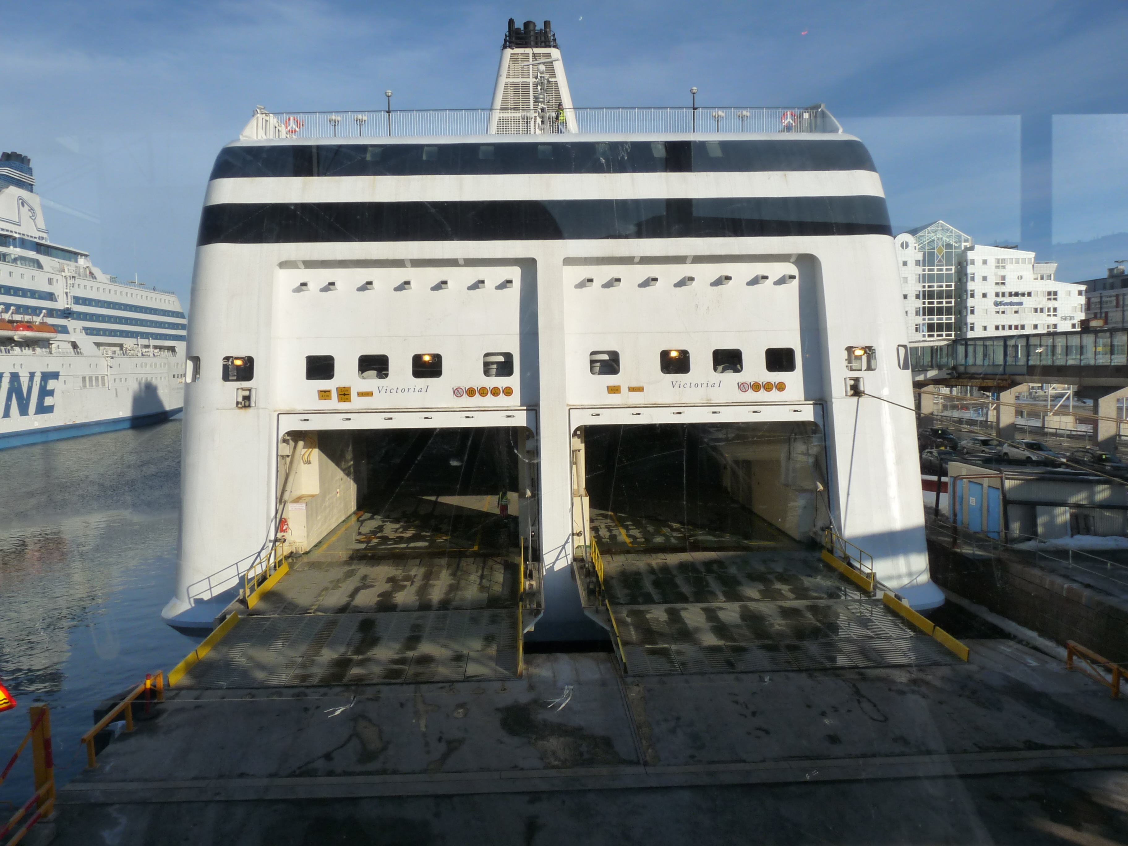 Car deck gates in MS Victoria I